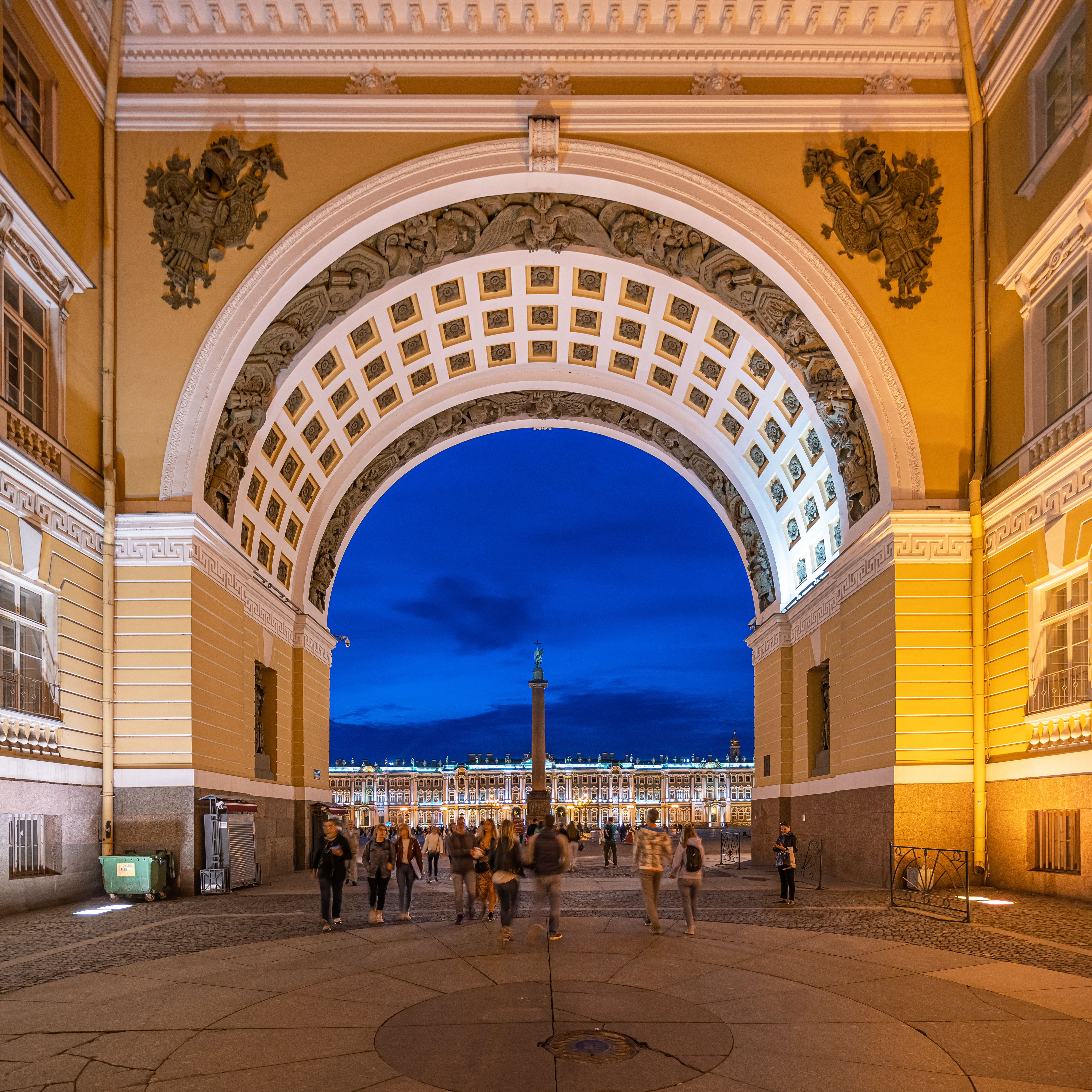 Triumphal Arch of the General Staff at Palace Square in Saint Petersburg, Russia